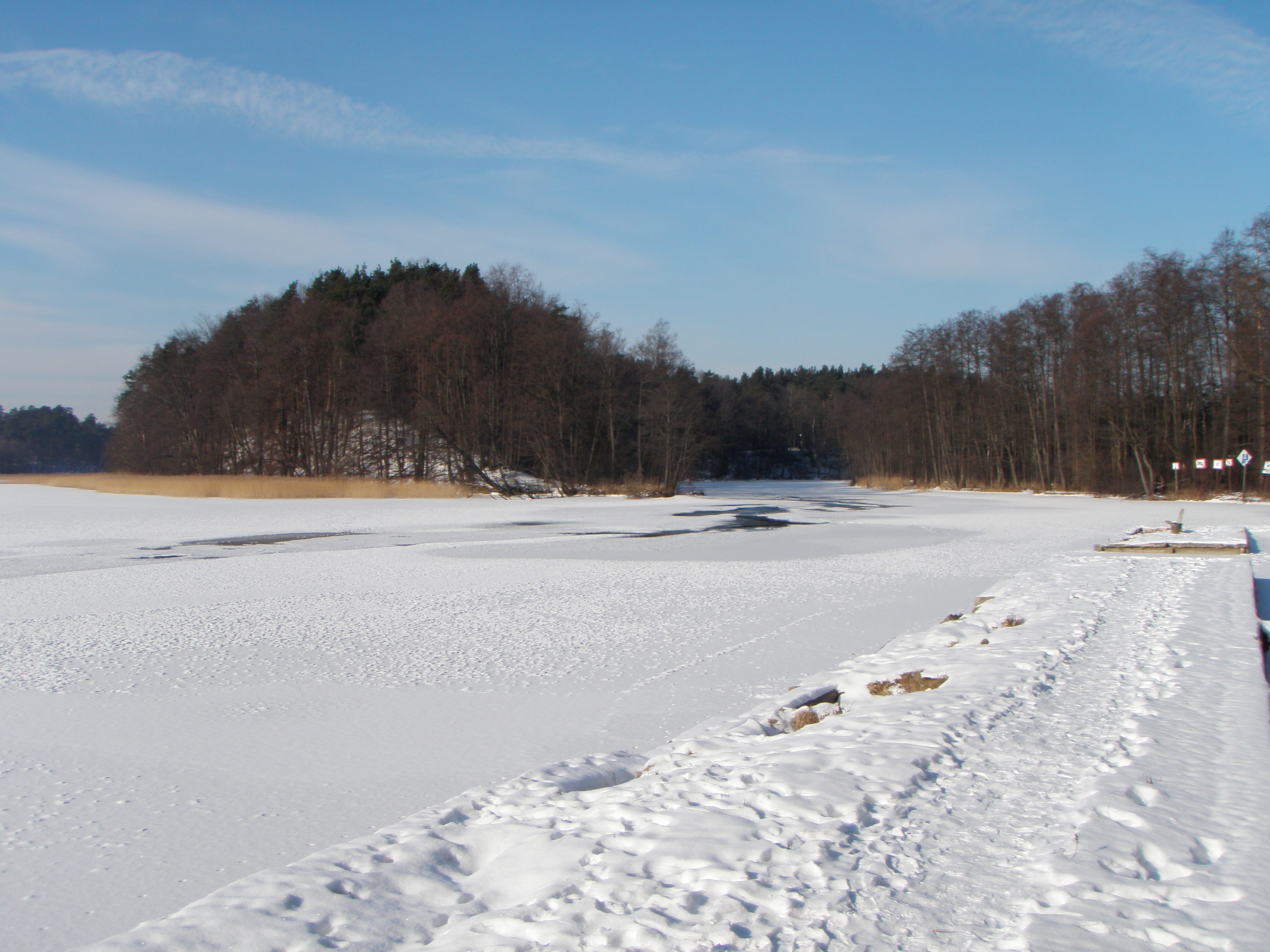 Lake Necko and river Klonownica